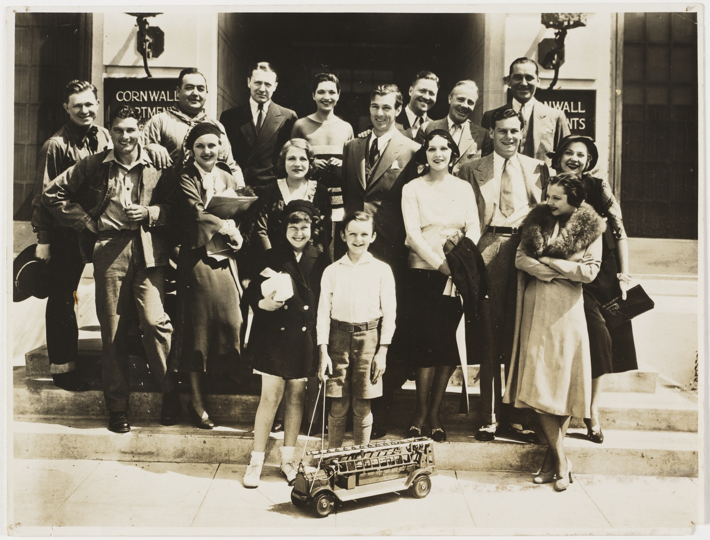 Above: Stuart Erwin, Eugene Pallette, Clive Brook, Kay Francis, Gary Cooper, Jack Oakie, "Skeets" Gallagher, William Boyde, Richard Arlen, Carole Lombard, Wynne Gibson, Rosetta Moreno, Norman Foster, Sylvia Sidney, Lilyan Tashman, Mitzi Green, and Jackie Searl. Format: Photograph Notes: Find more detailed information about this photograph: .au/item/itemDetailPaged.aspx?itemID=52721 Search for more great images in the State Library's collections: .au/search/SimpleSearch.aspx From the collection of the State Library of New South Wales